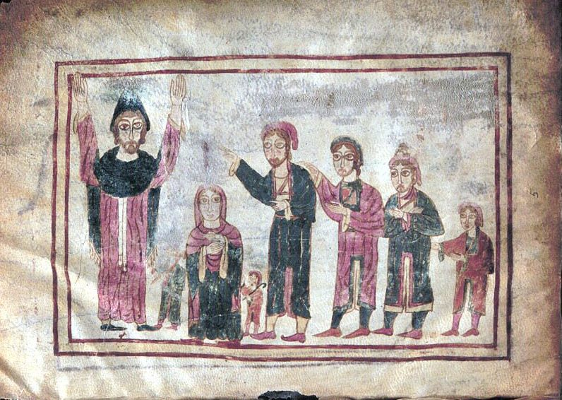 Gospel; “The Vehapar Gospel”